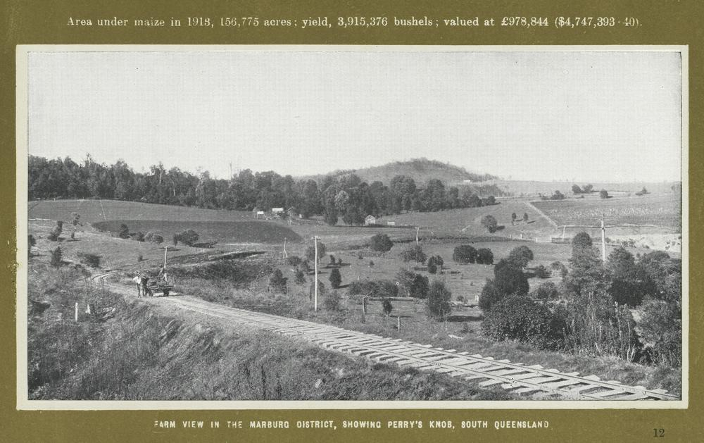 Country scene at Marburg, ca. 1915. Photographs were commissioned by the Queensland Government Intelligence and Tourist Bureau. A book was then produced to use in promoting Queensland tourism at the Panama-Pacific International Exposition held in San Francisco in 1915. The book was titled 'Glimpses of Sunny Queensland : views depicting scenery, life and industries of the state'.